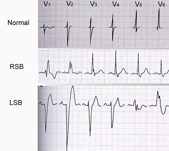 RBB and LBB in contrast to normal ECG in leads V1-6